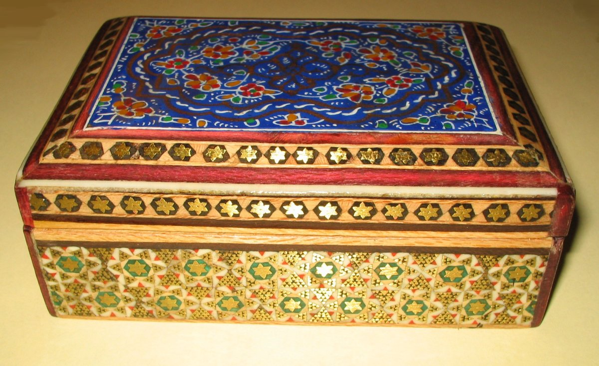 Box painted and decorated with Khatam kari marquetry, a typical kind of work in wood from Iran.